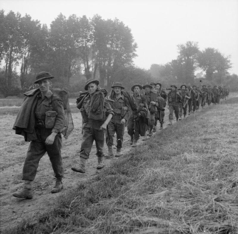 The British Army in Normandy 1944 Men of 10th Highland Light Infantry, 15th (Scottish) Division, move forward during Operation 'Epsom', 26 June 1944.